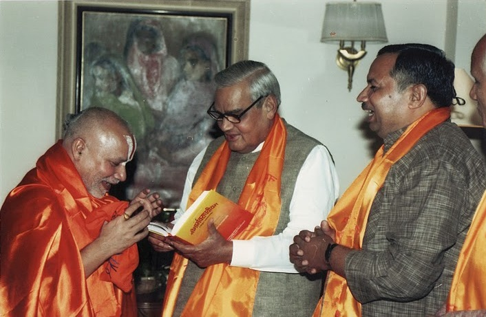 Jagadguru Rambhadracharya with Atal Behari Vajpayee on the occasion of release of his epic Sribhargavaraghaviyam at the Prime Minister's residence.